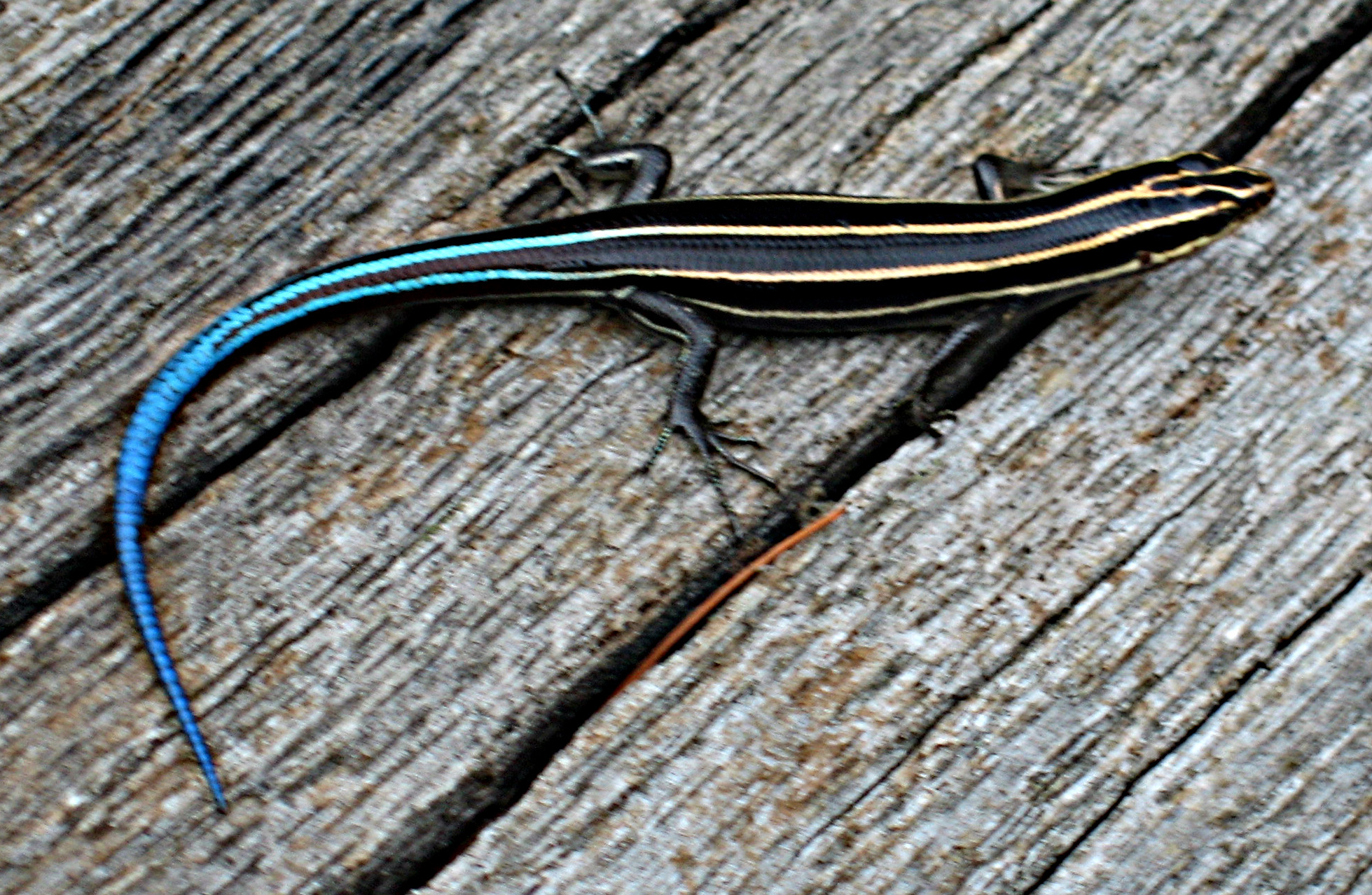 Photograph of a five-lined skink (Eumeces fasciatus) taken in Shenandoah National Park on September 10, 2006.